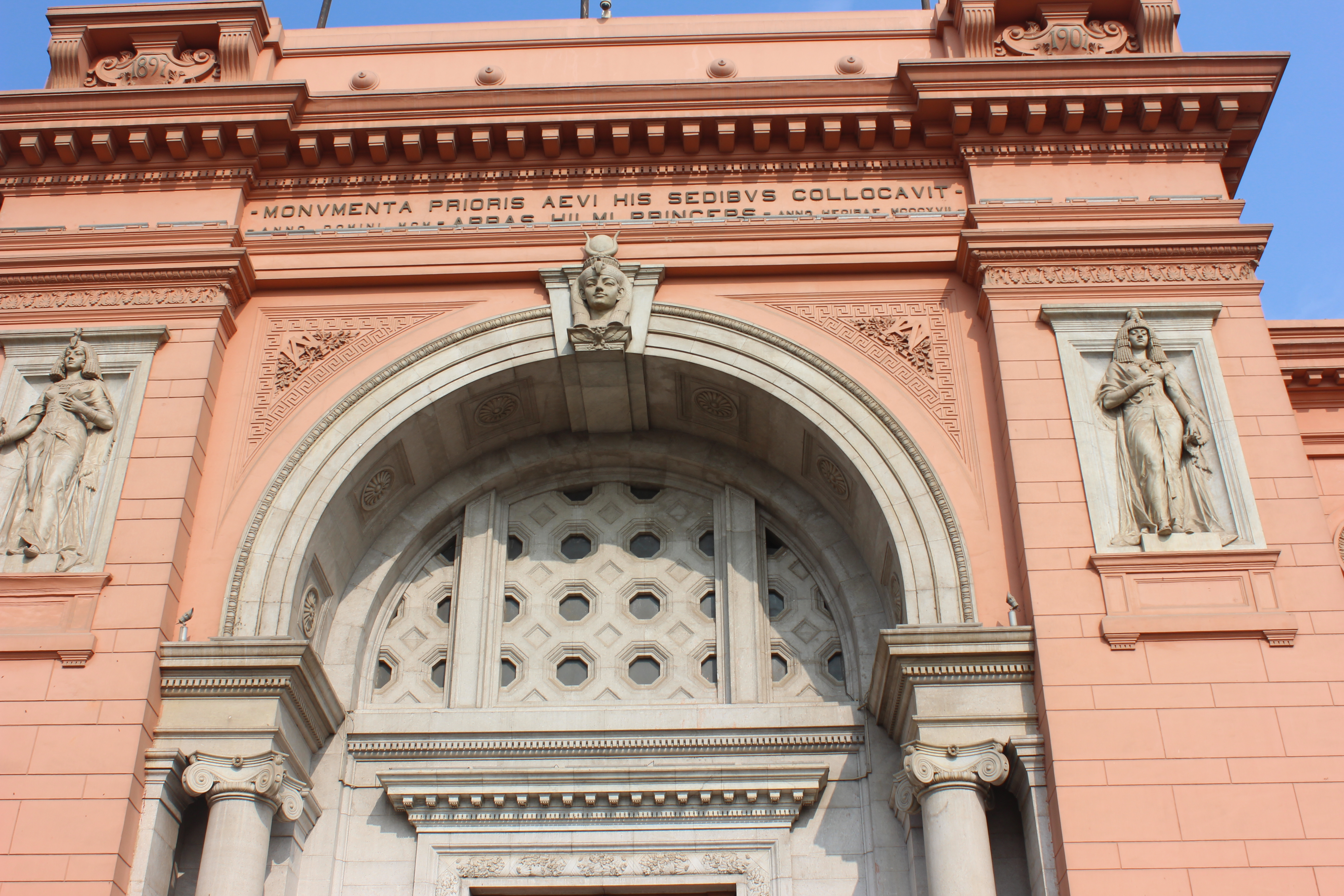 Egyptian Museum in Cairo, Egypt.)